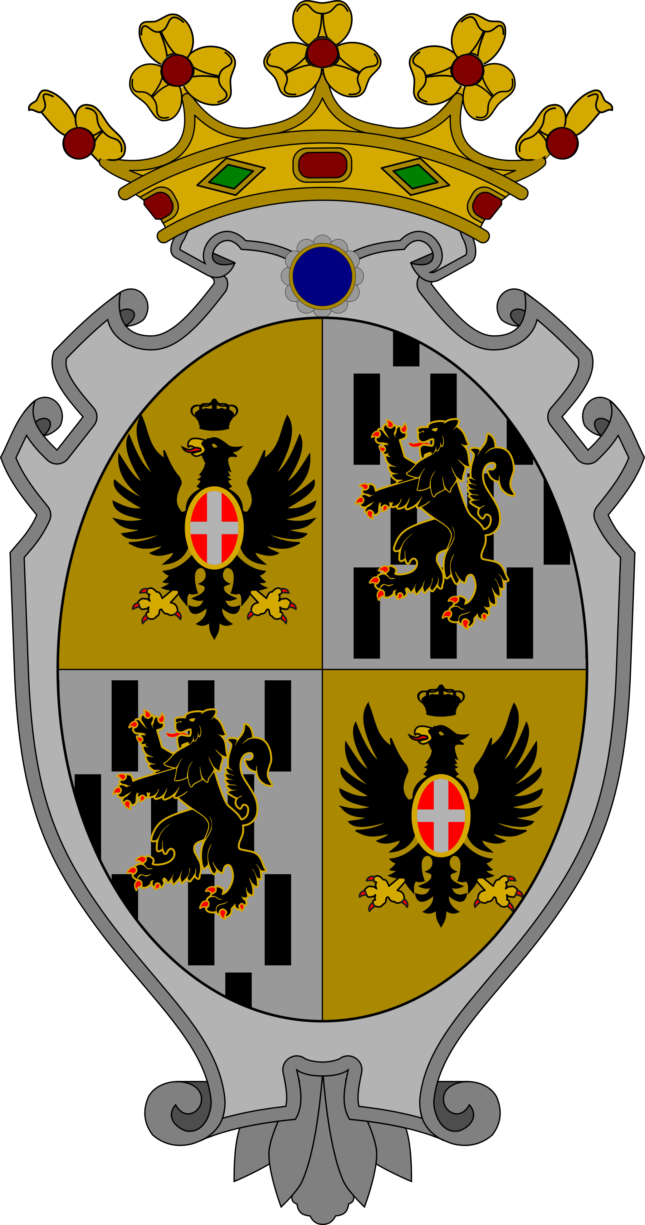 Coat of Arms of the 18th Infantry Regiment "Acqui", Royal Italian Army, 1939